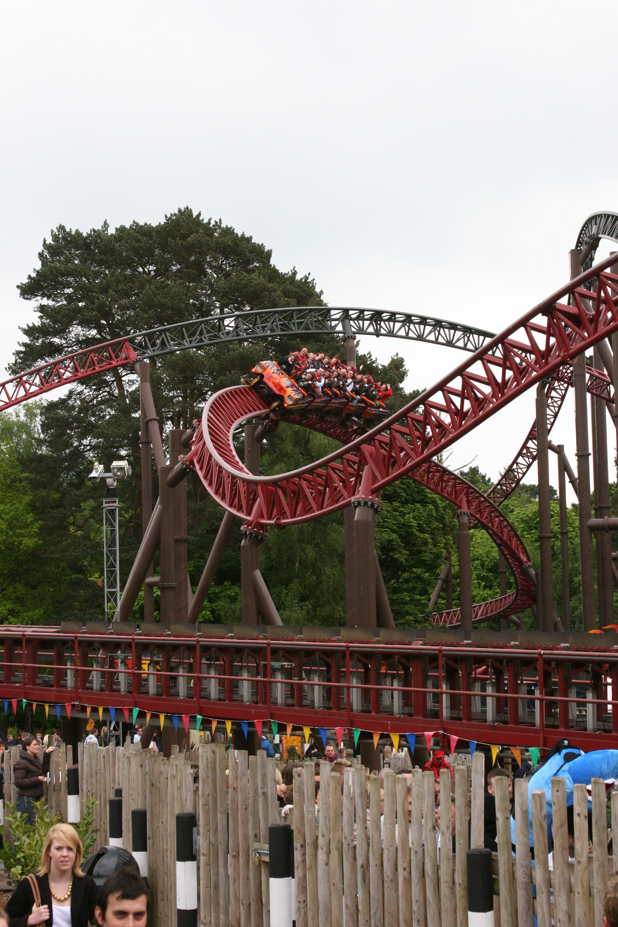 Rita - Queen of Speed is a steel launched roller coaster built by Intamin AG at Alton Towers, United-Kingdom.